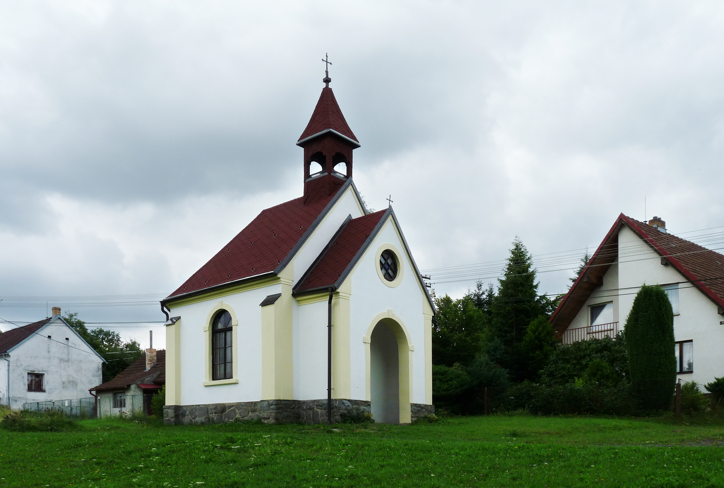 Chapel in Rankov, a small village in České Budějovice District, Czech Republic.